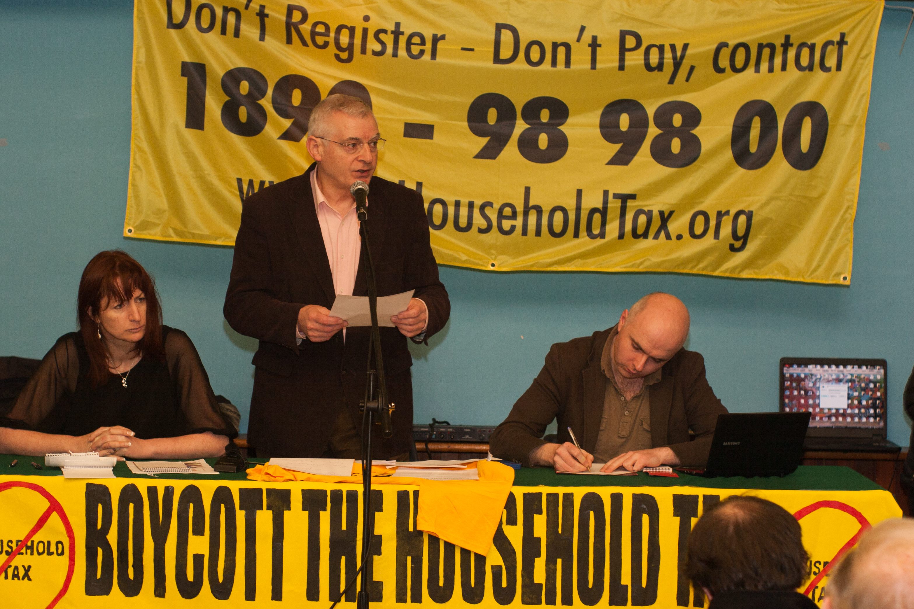 Joe Higgins, Clare Daly and John Campbell. All photos © Paul Reynolds 0879446693